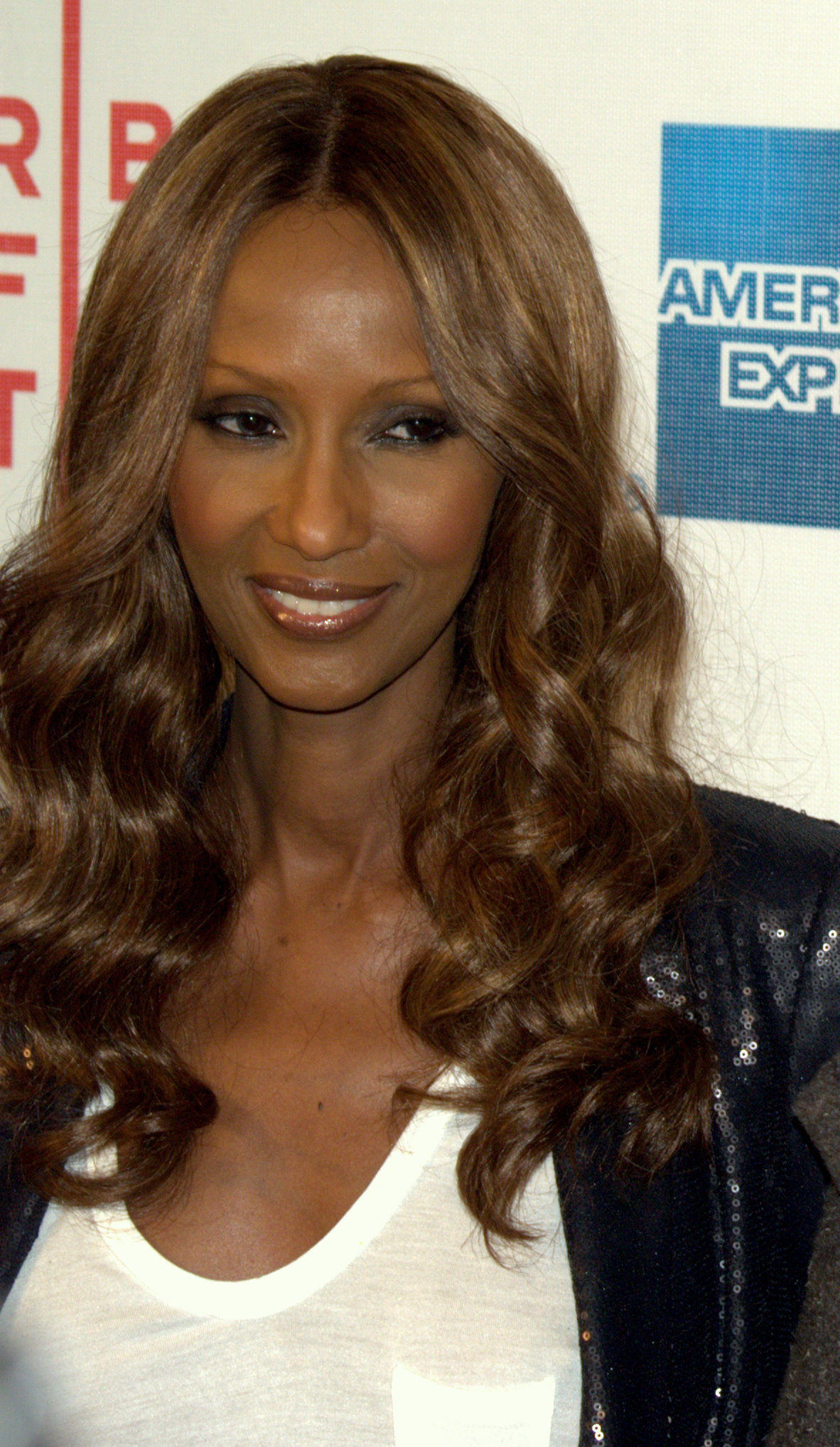 Iman at the 2009 Tribeca Film Festival premiere of Moon.